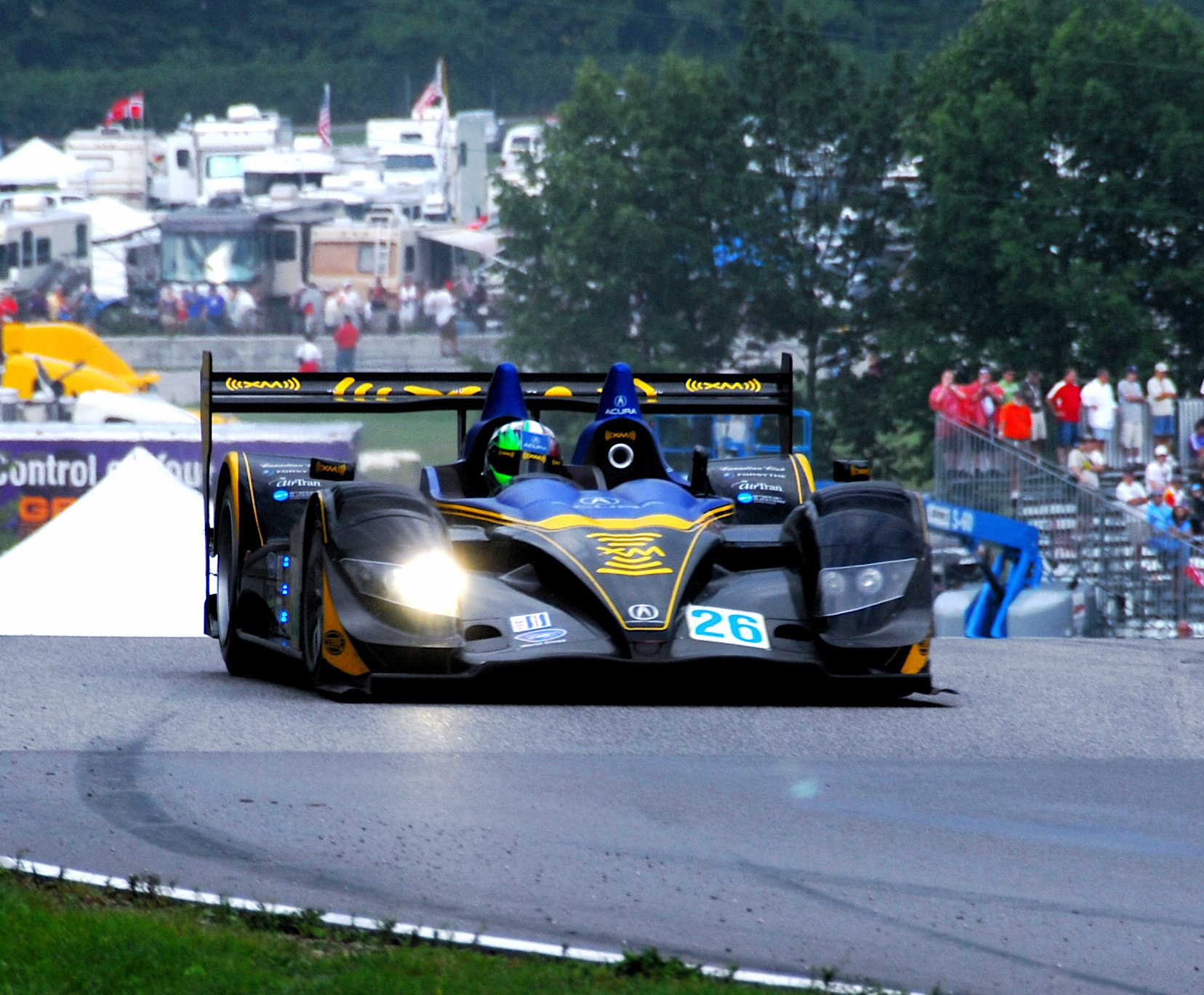 Andretti Green Racing's Acura ARX-01a at the 2007 Generac 500